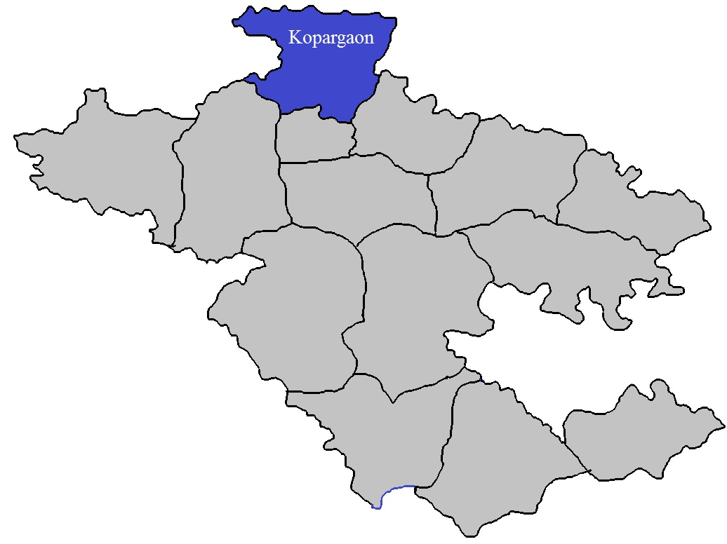 Kopargaon Tehsil in Ahmednagar District